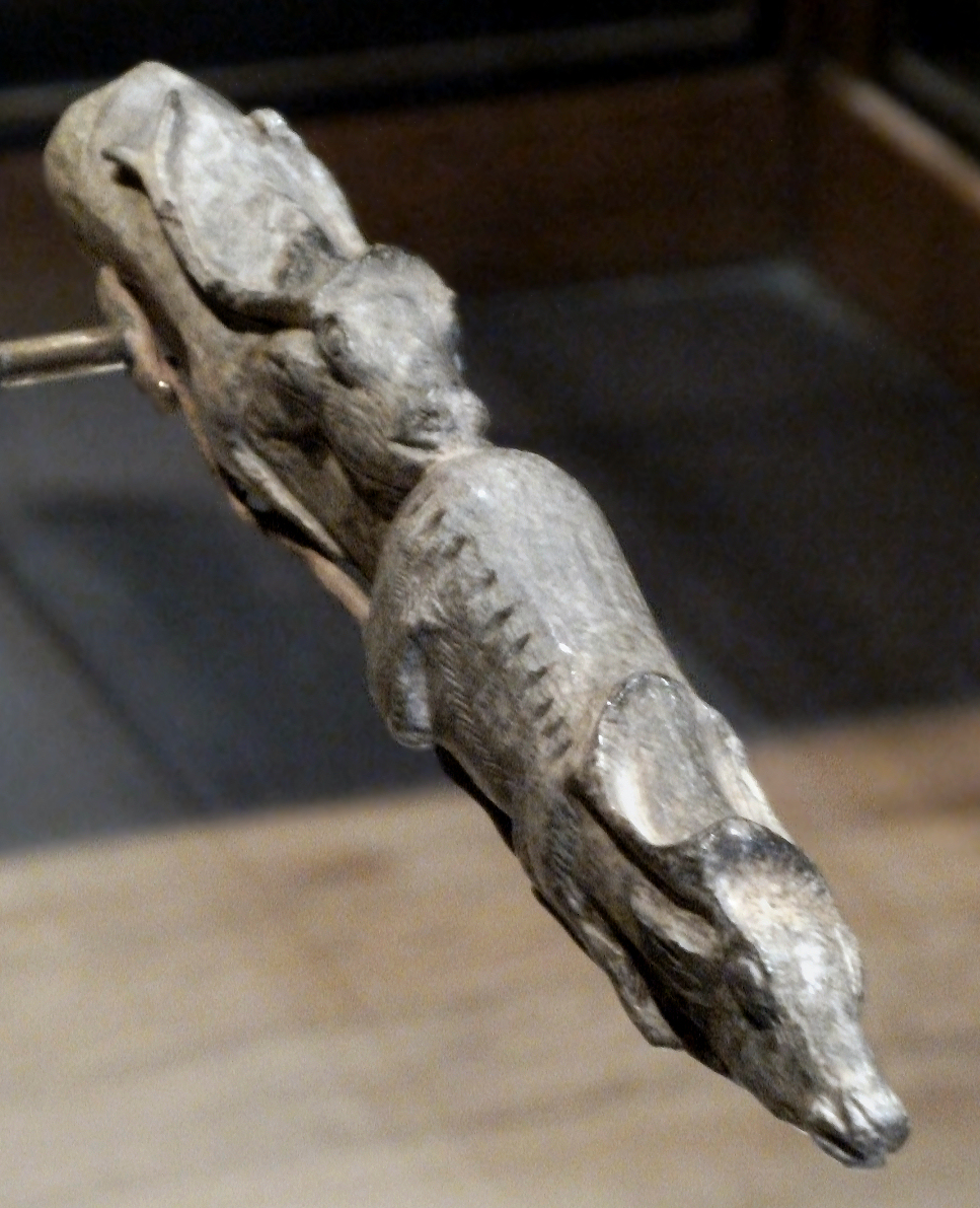 Swimming reindeer